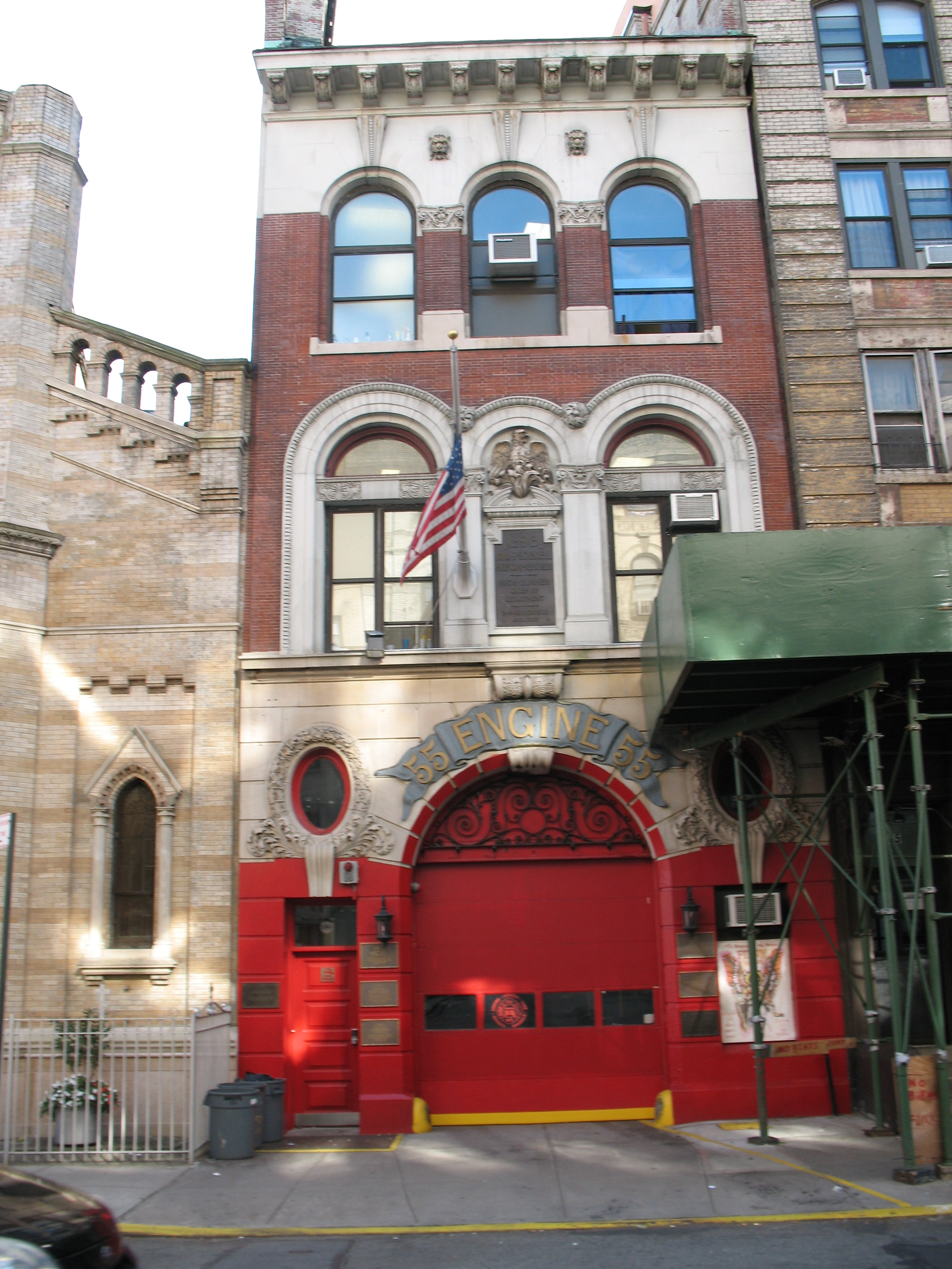 Fire Engine Company 55 at 363 Broome Street in New York City. ZIP Code 10013.